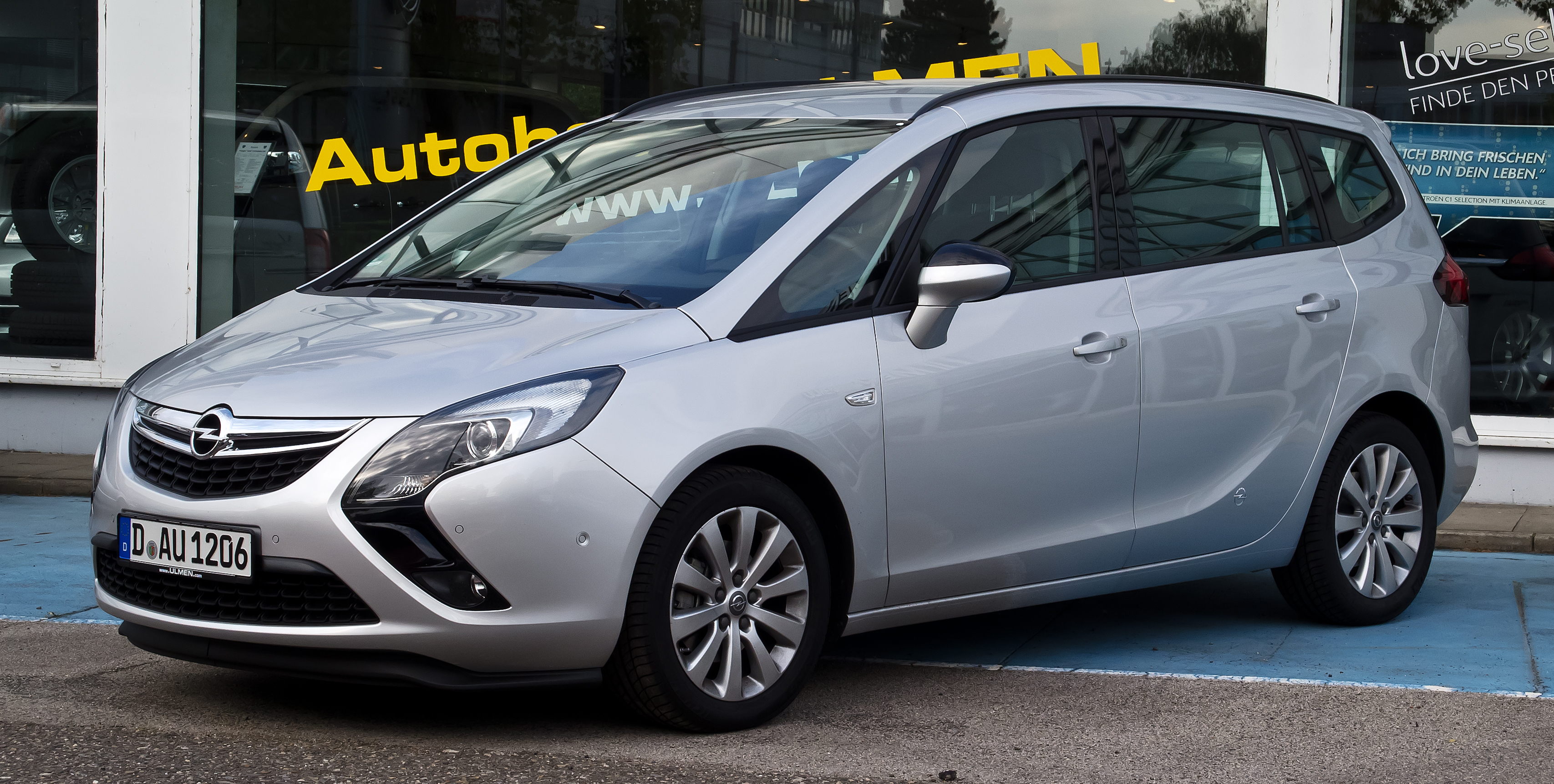 Opel Zafira Tourer 1.4 Turbo ecoFLEX Edition (C)